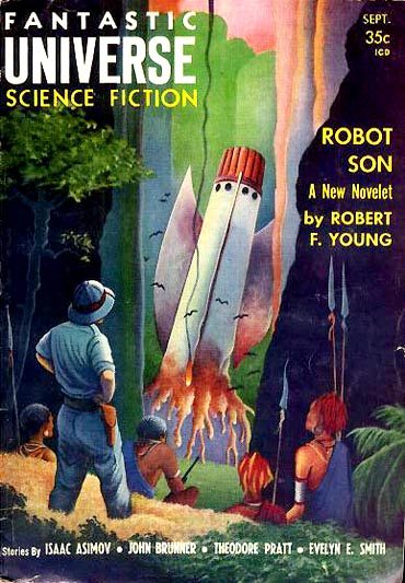 Cover of Fantastic Universe, September 1959